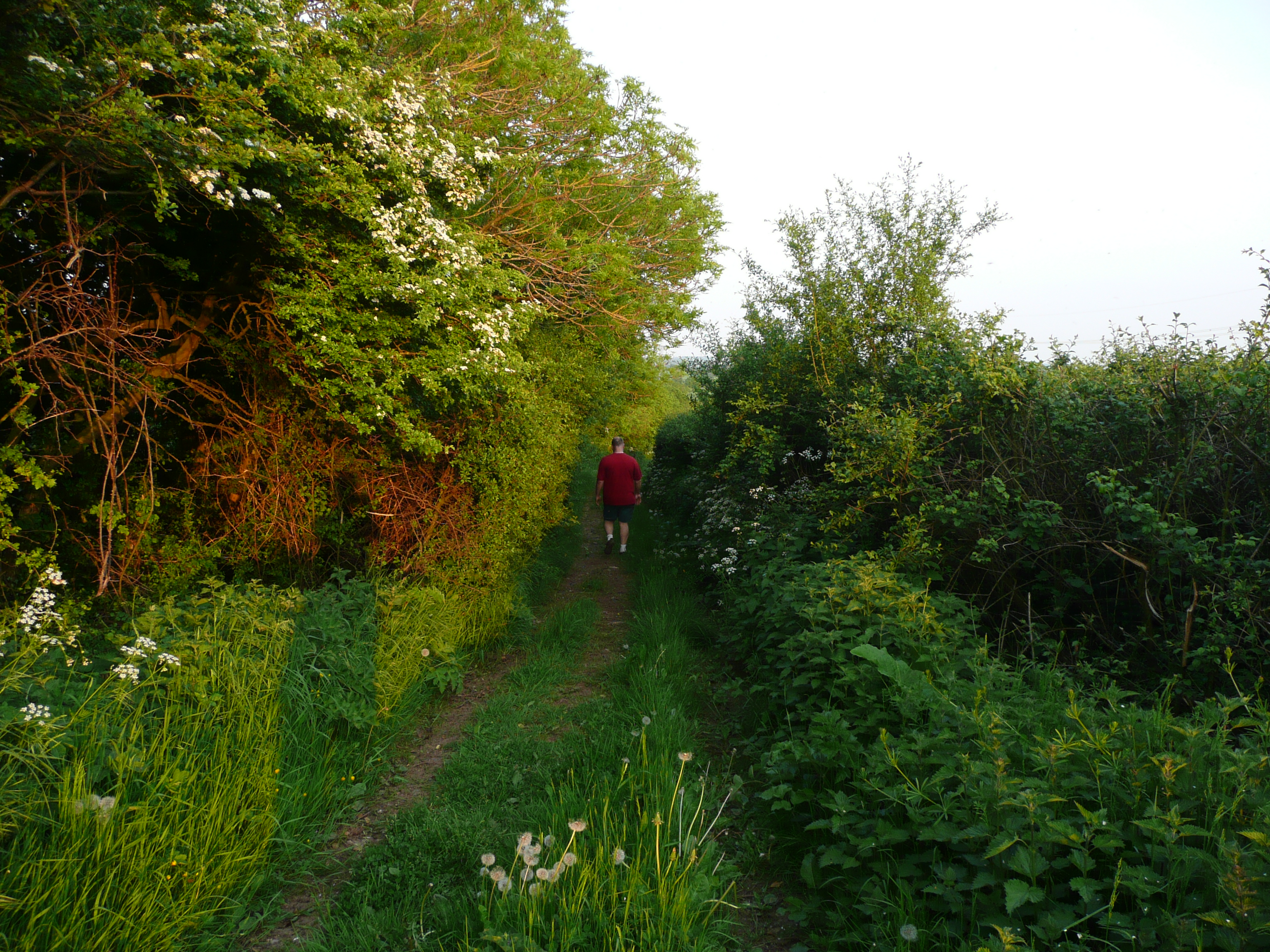 Drover's Road near Folly Farm, South Gloucestershire